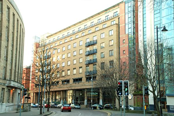 The "Holiday Inn", Belfast. A 90's post-bombing campaign building in Ormeau Avenue 973099. It occupies the site of a linen warehouse which, after closure, housed some Government offices including the motor tax office. It was demolished after being damaged by a bomb. The vacant site was then used as a public car park. Broadcasting House 564271 is on the left and Centrepoint 570074 on the right.